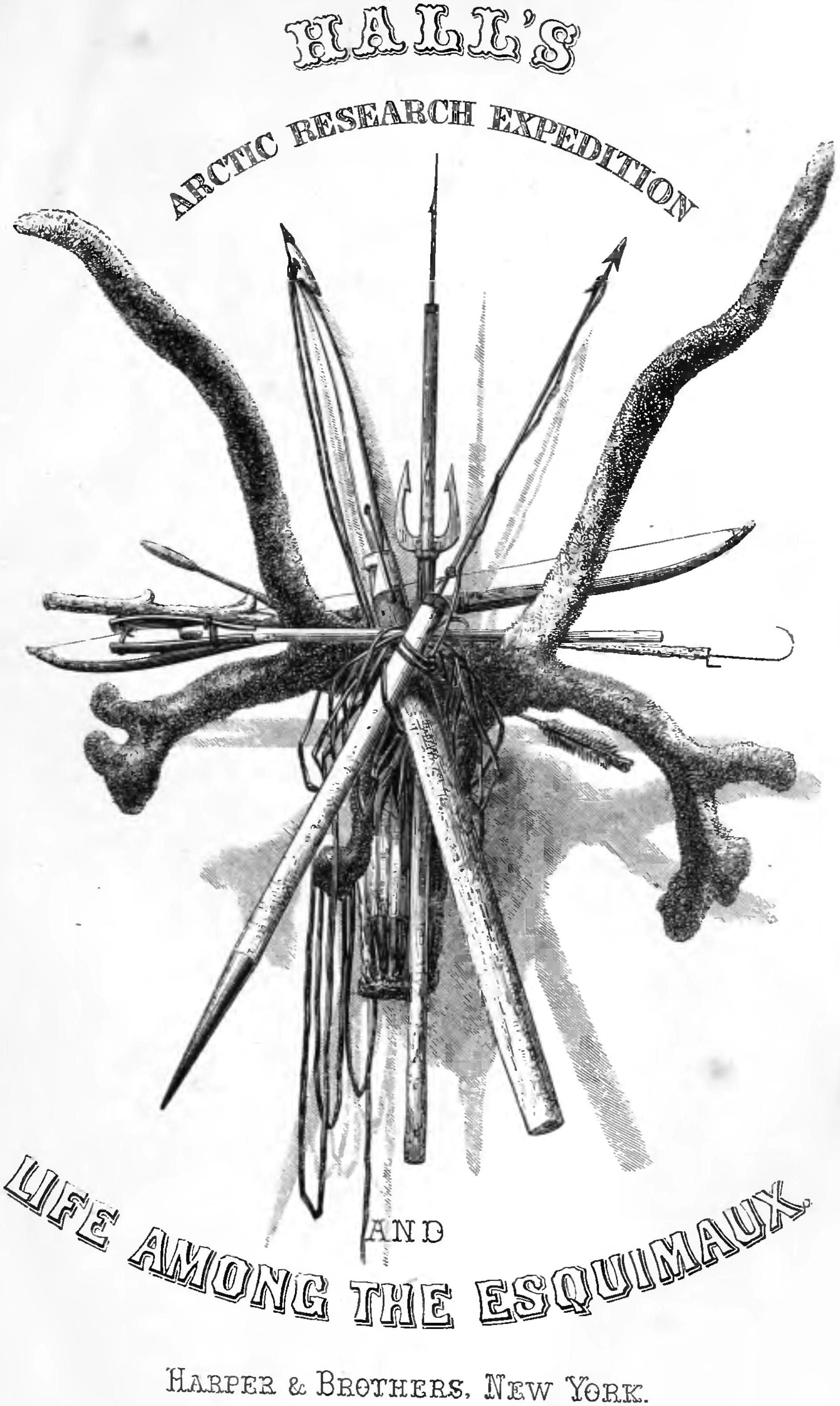 Title image of Arctic Researches, and Life Amongst the Esquimaux